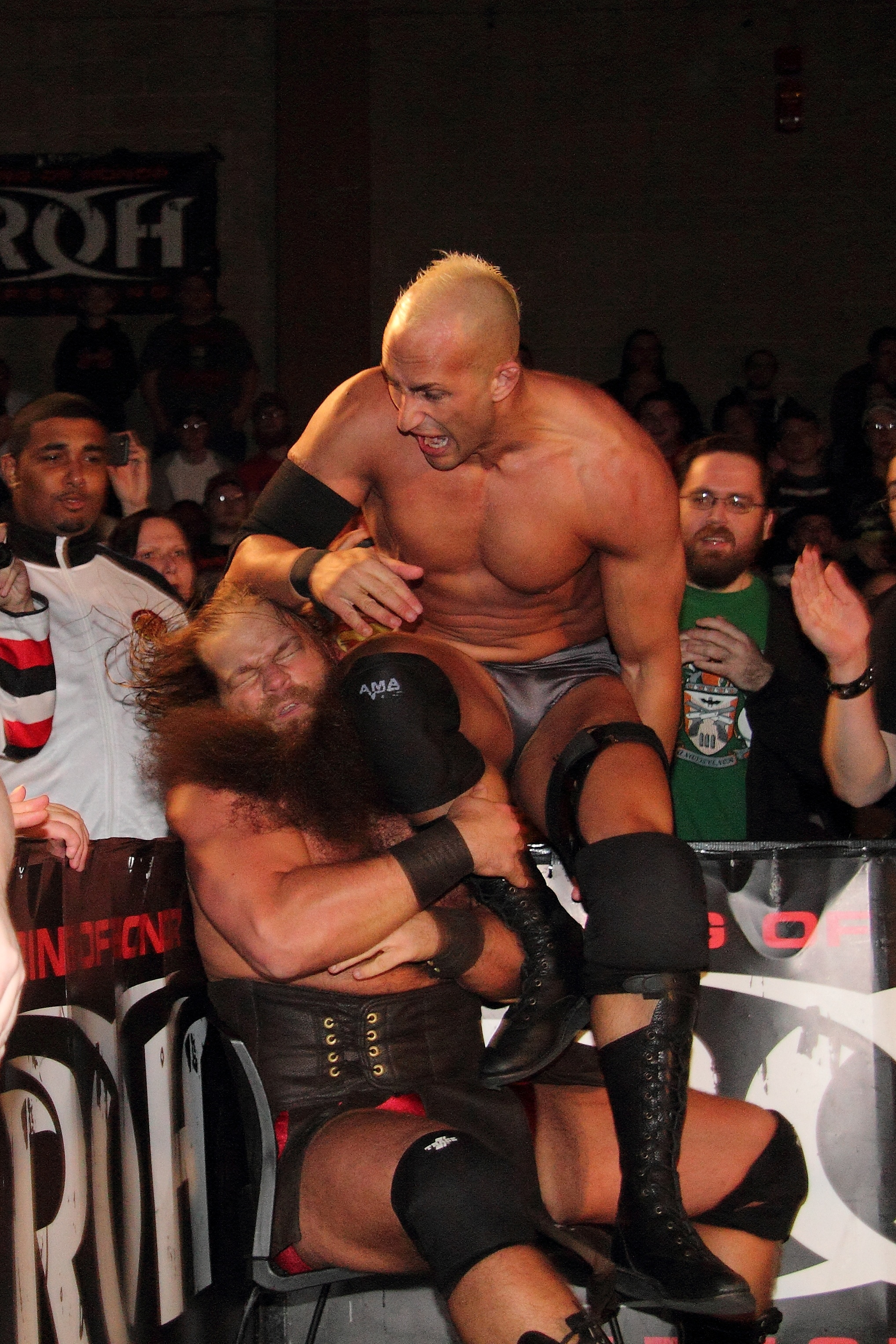 Independent wrestler Tommaso Ciampa hitting a knee against an unknown wrestler